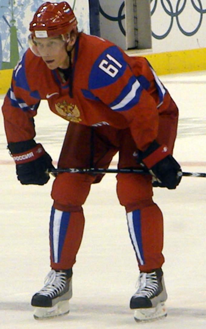 Maxim Afinogenov of the Russia men's national ice hockey team, warming up before a match against the Latvia men's national ice hockey team in the 2010 Winter Olympics at Canada Hockey Place on February 16, 2010.